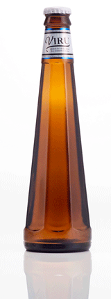 Author: Virubeer